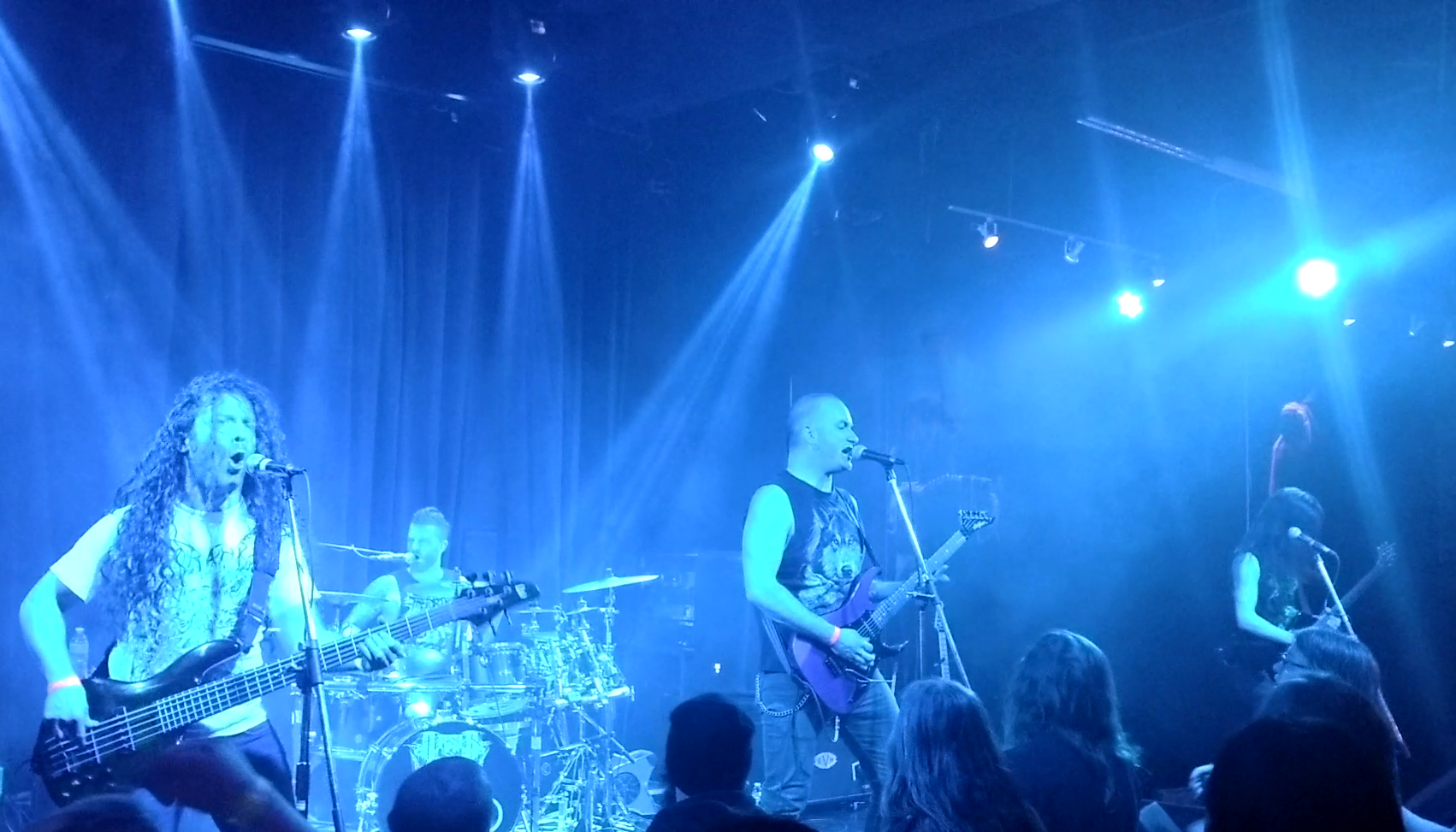 Arsis performing at Club Sur Rocks in Seattle, WA on November 9th, 2018 as headliner of the Bloodletting North American Tour